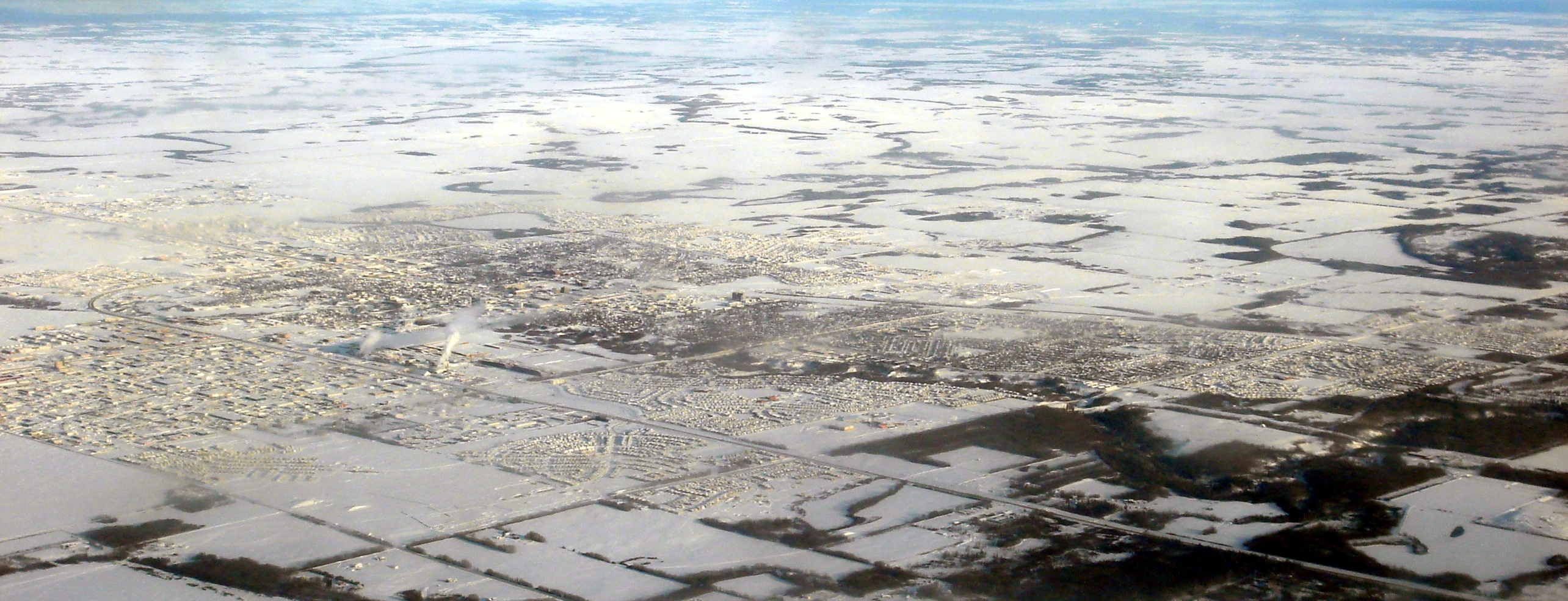 Aerial View of the city of Grande Prairie, Alberta, Canada